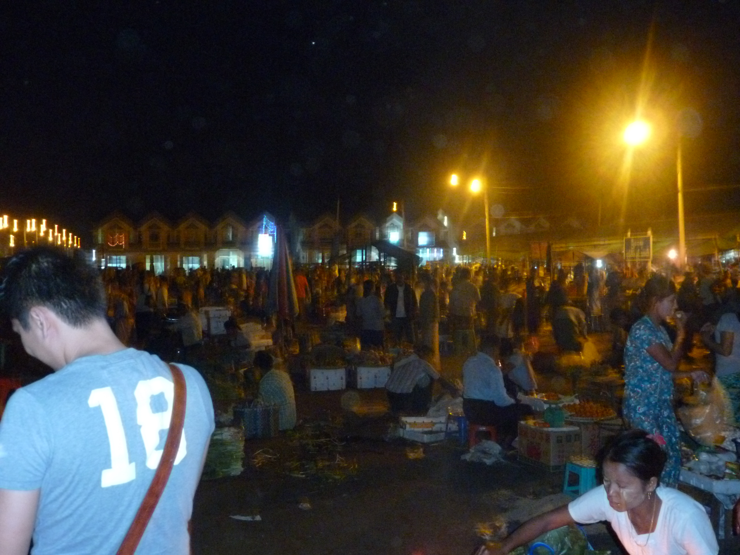 Myoma Night Market, Naypyidaw